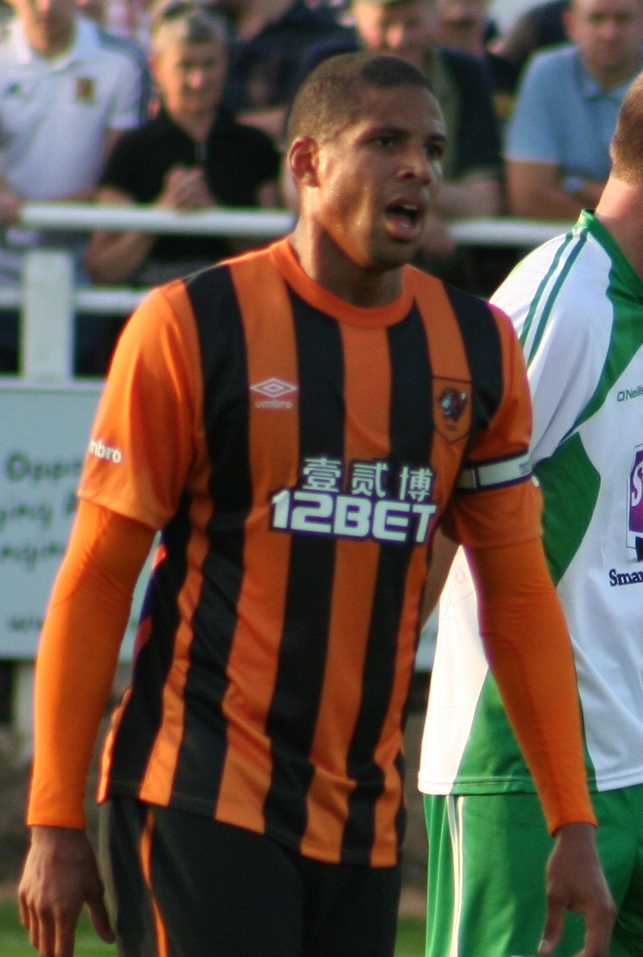 Curtis Davies playing for Hull City against North Ferriby United at Grange Lane, North Ferriby on 21 July 2014